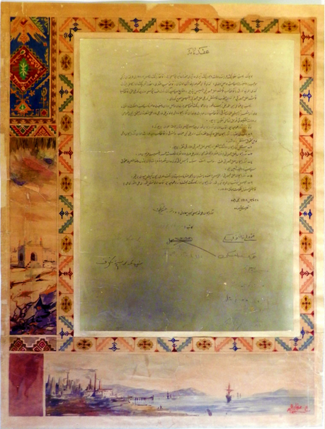 Composition «Declaration of Independence». Museum of History of Azerbaijan, Baku. 65 х 50 cm.